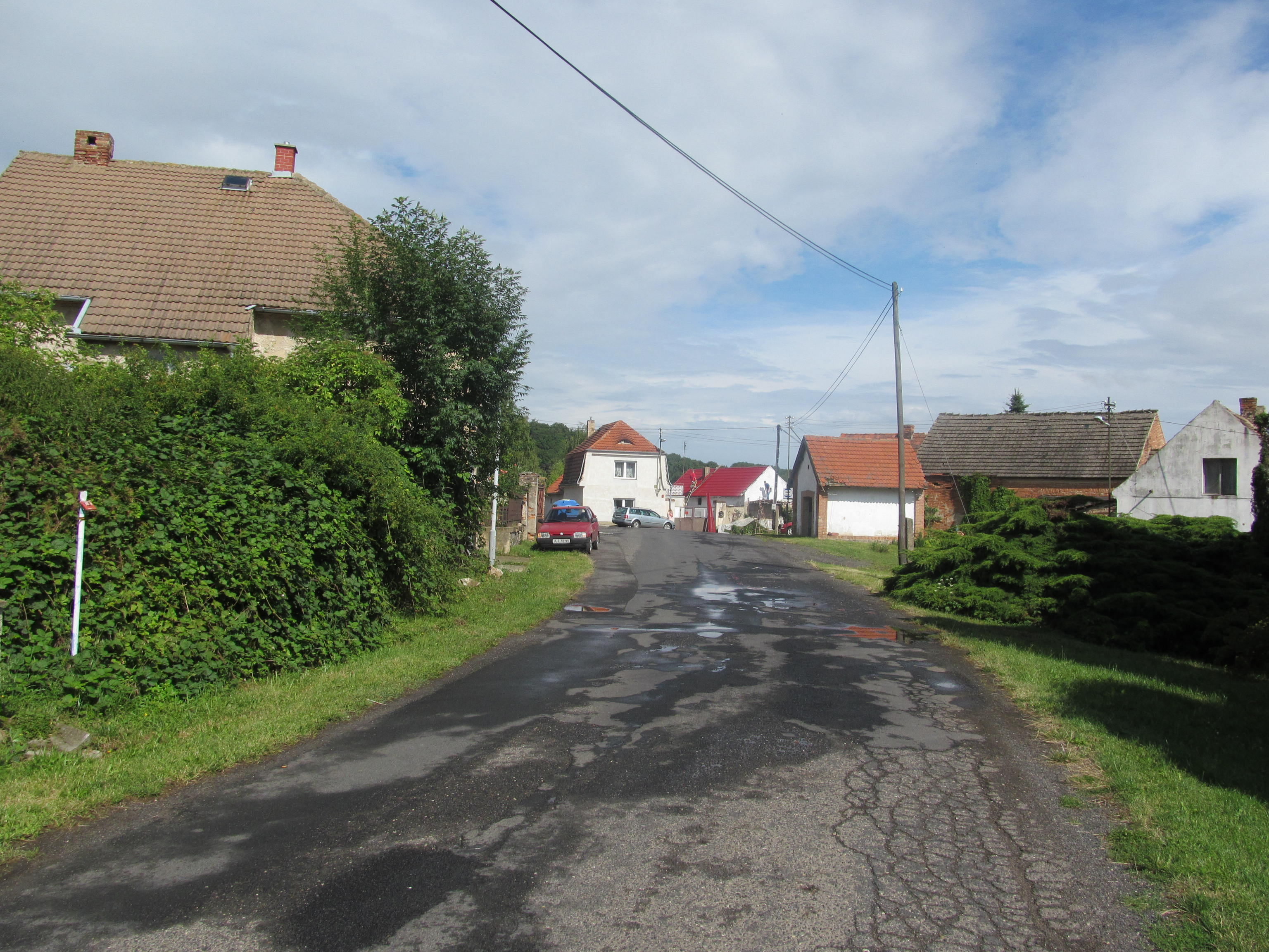 Village square in Řisuty